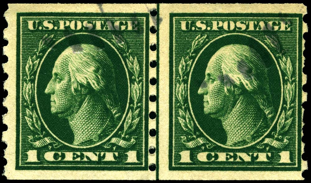 United States 1c coil stamp of 1908 series, line pair